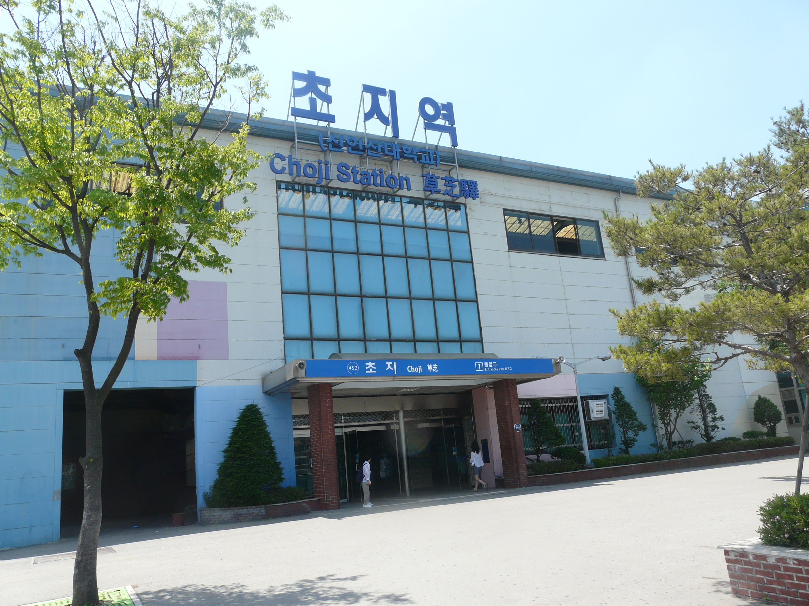 Choji Station , Ansan, Korea